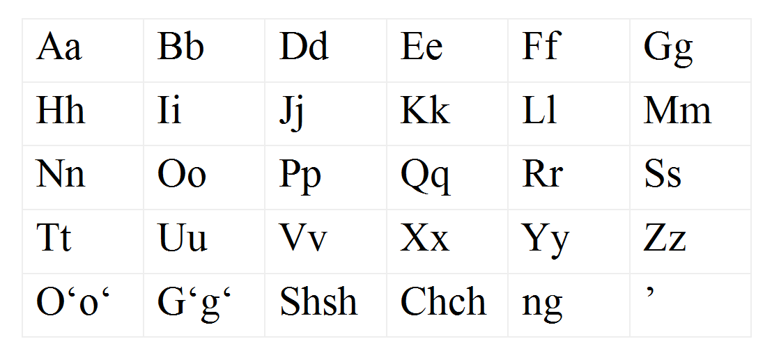 1995 Uzbek latin alphabet letters